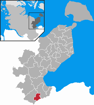 This map shows the area of the Stadt (town) Bad Schwartau in the Kreis (district) Ostholstein, Schleswig-Holstein, Germany.